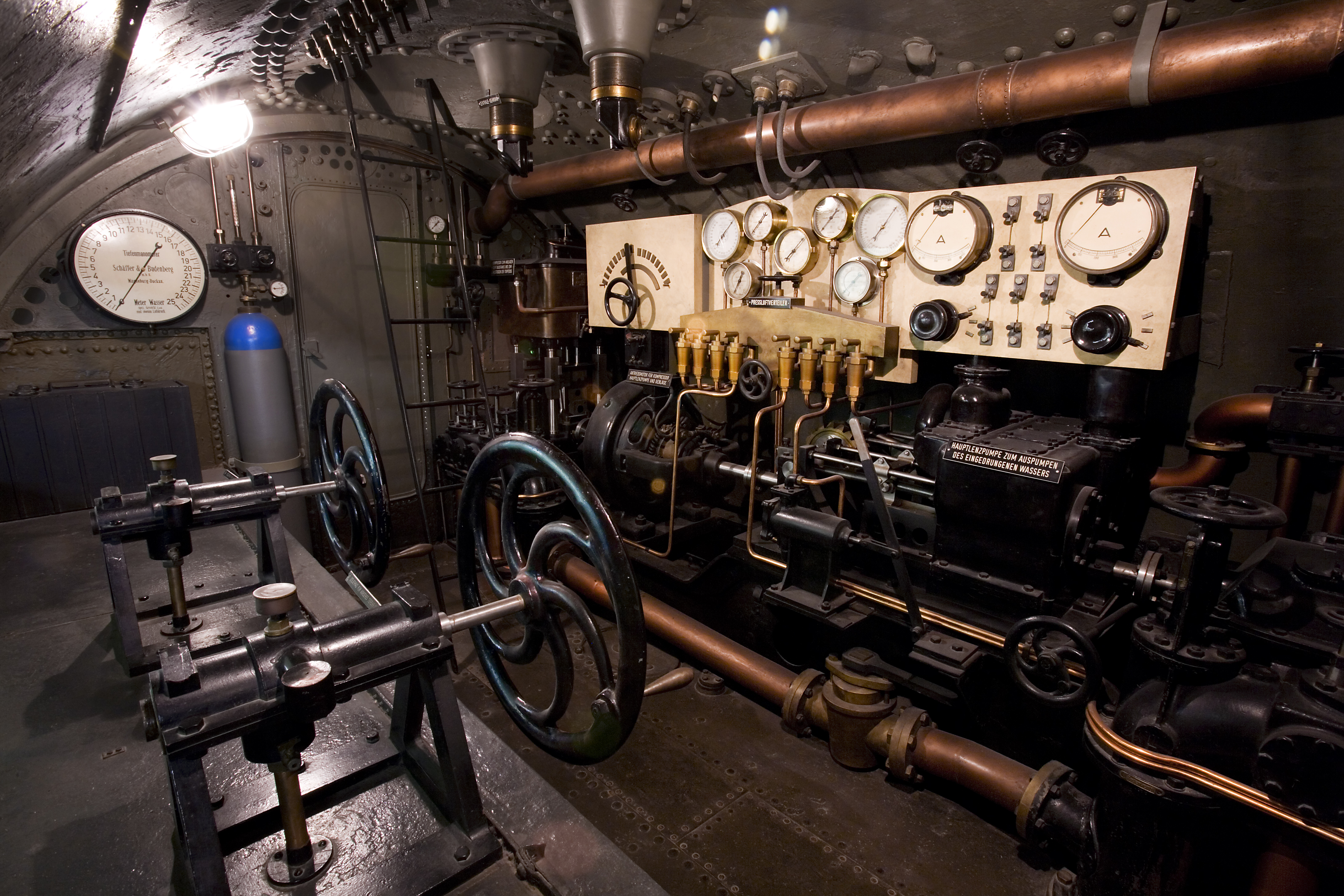 Main control and periscope room in a U-Boot U-1 1906 U-Boat Deutsches Museum, Museumsinsel, Munich, Germany